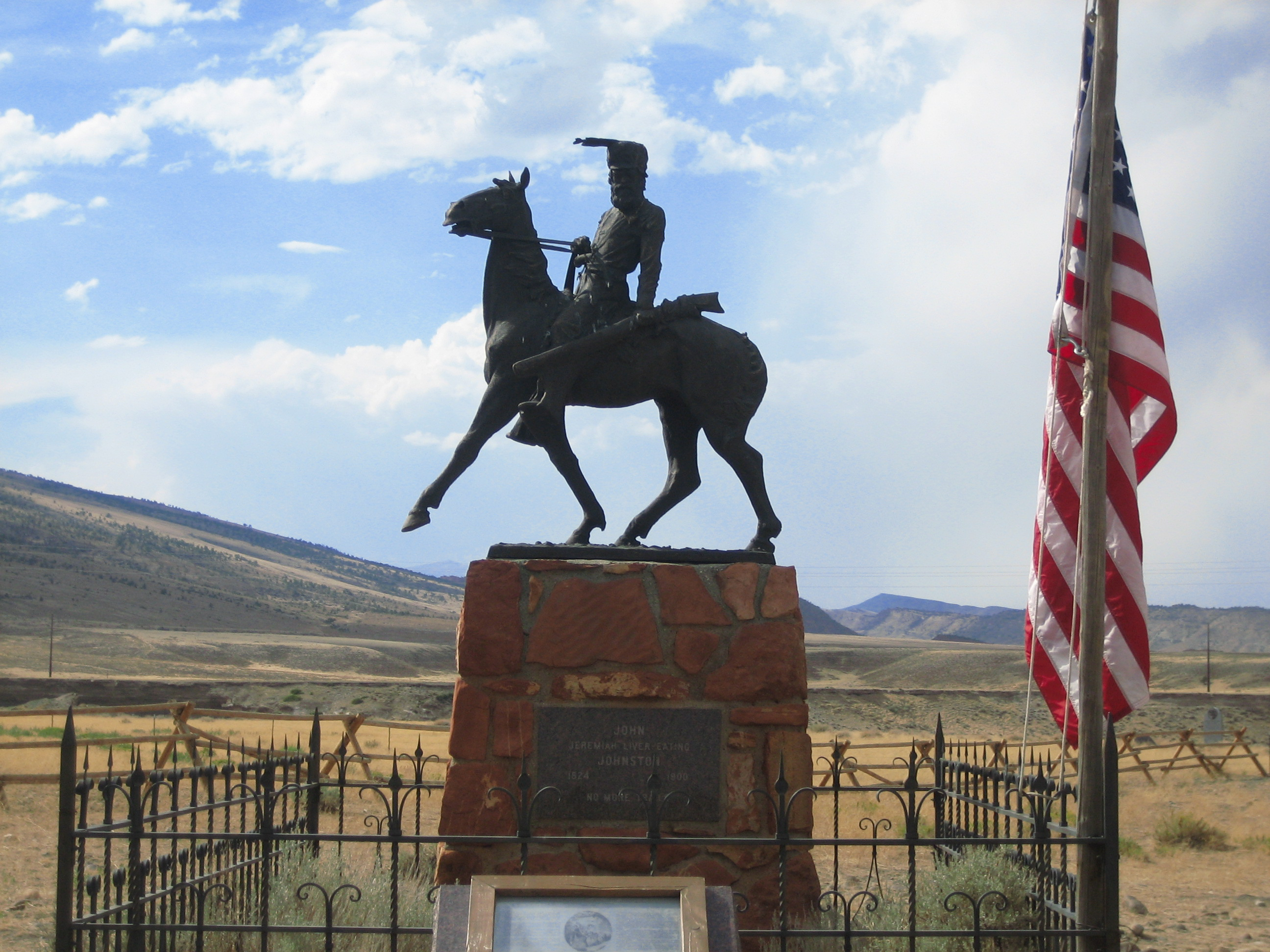 Took this photo myself in August 2006.Billy Hathorn (talk) 01:32, 2 July 2008 (UTC)